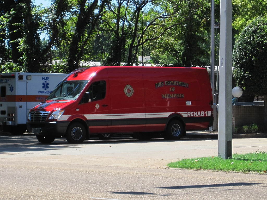 Memphis, Tennessee. Memphis Fire Department vehicle Rehab-1